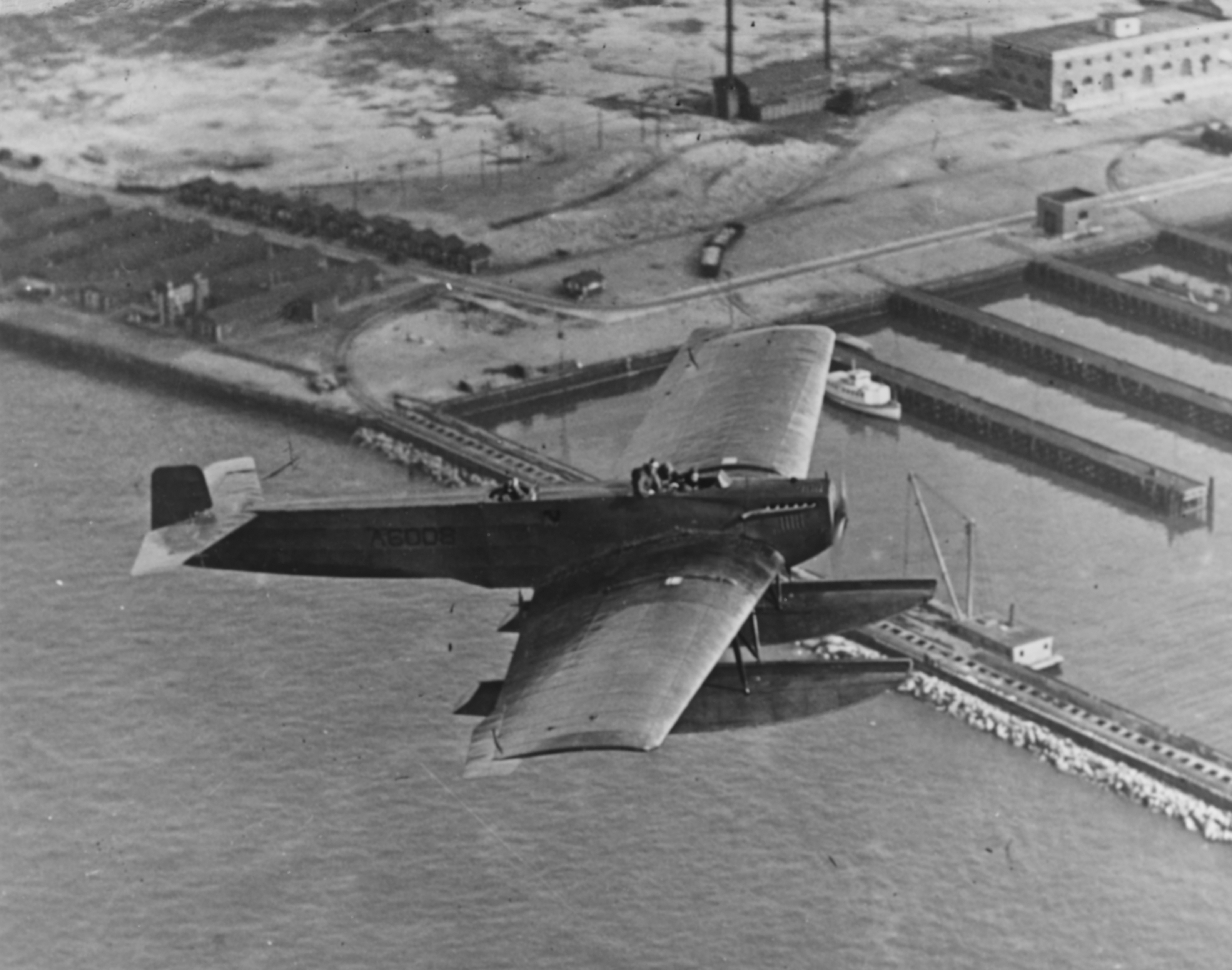 A U.S. Navy Fokker FT-1 torpedo aircraft (BuNo A6008) in flight near Naval Air Station Norfolk, Virginia (USA), in April 1923. The U.S. Navy operated three Fokker T.II as FT-1 (2) and FT-2 (1)(BuNo A6008-A6010).